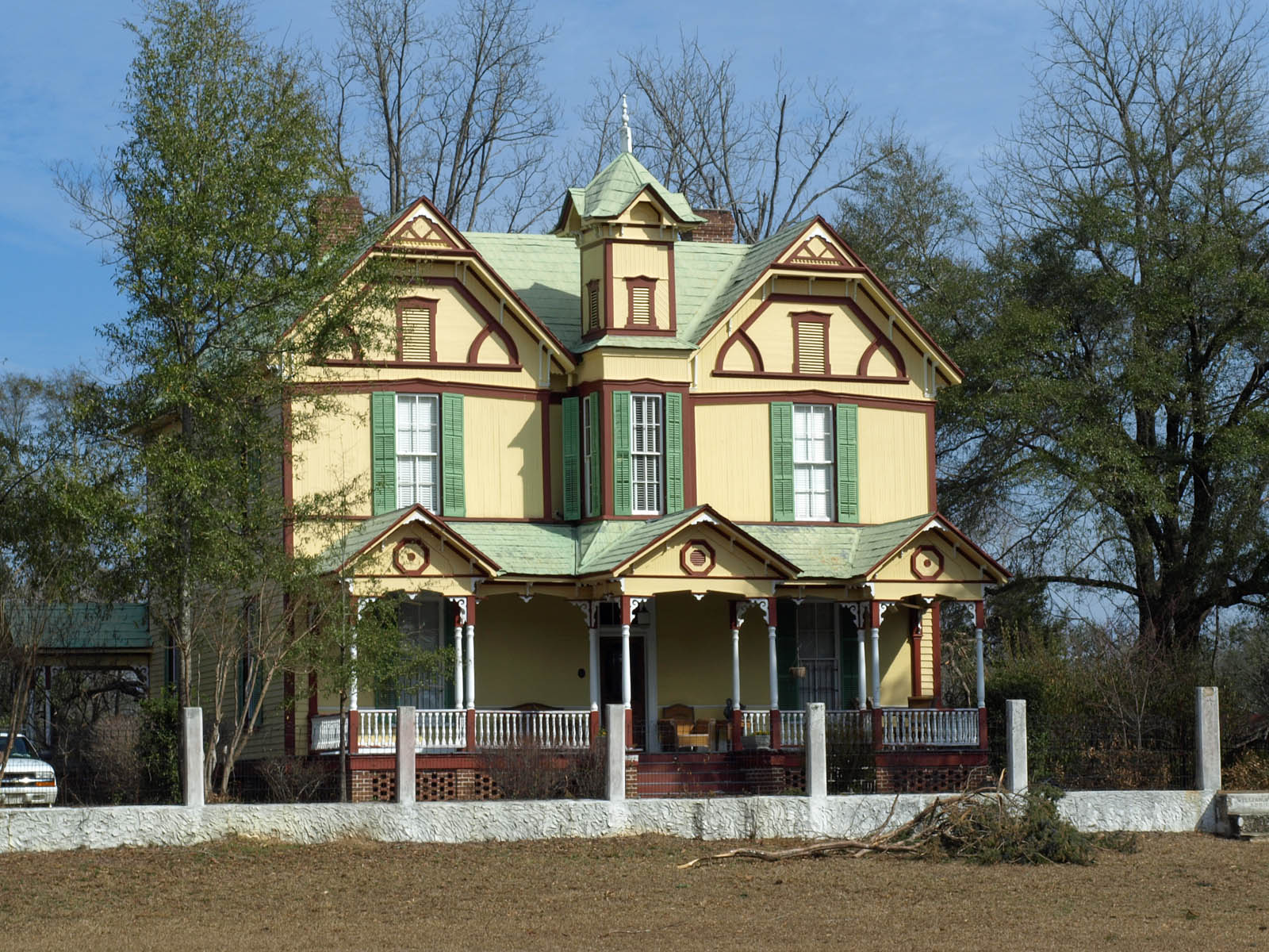 The Walker-Klinner Farmhouse in Chilton County, Alabama, listed on the National Register of Historic Places